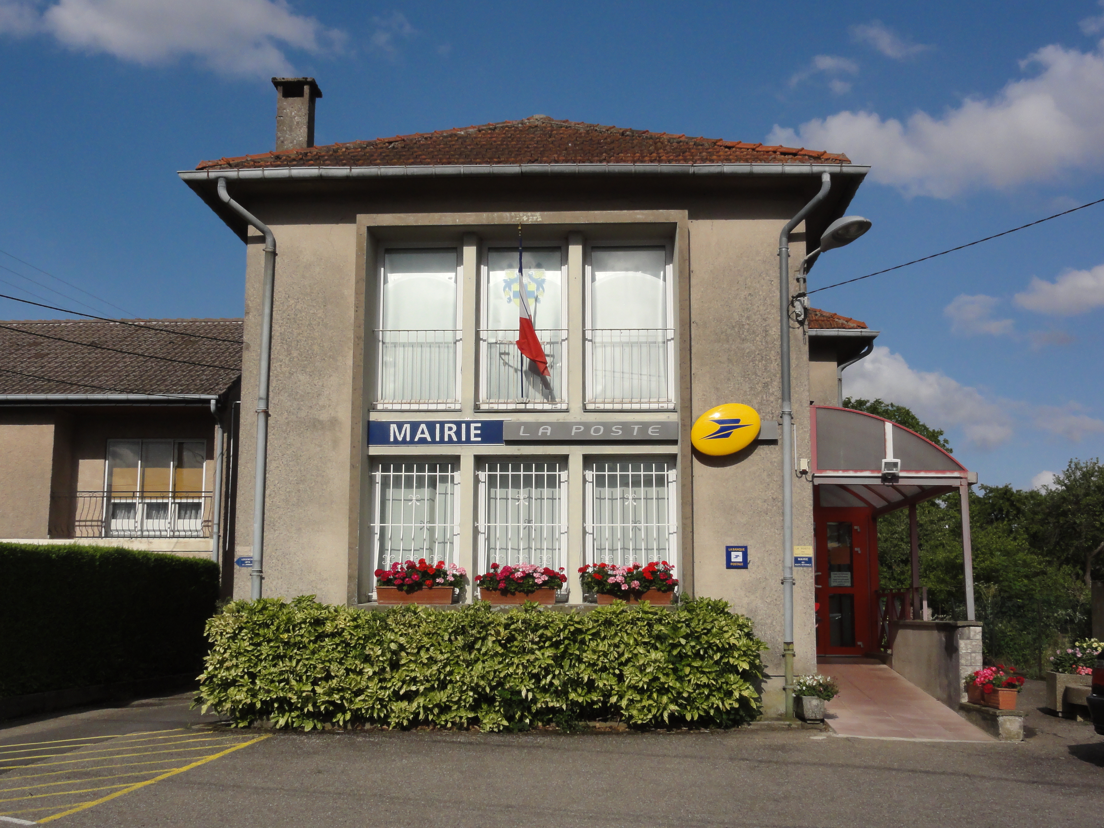 Mercy-le-Bas (Meurthe-et-M.) mairie - la Poste